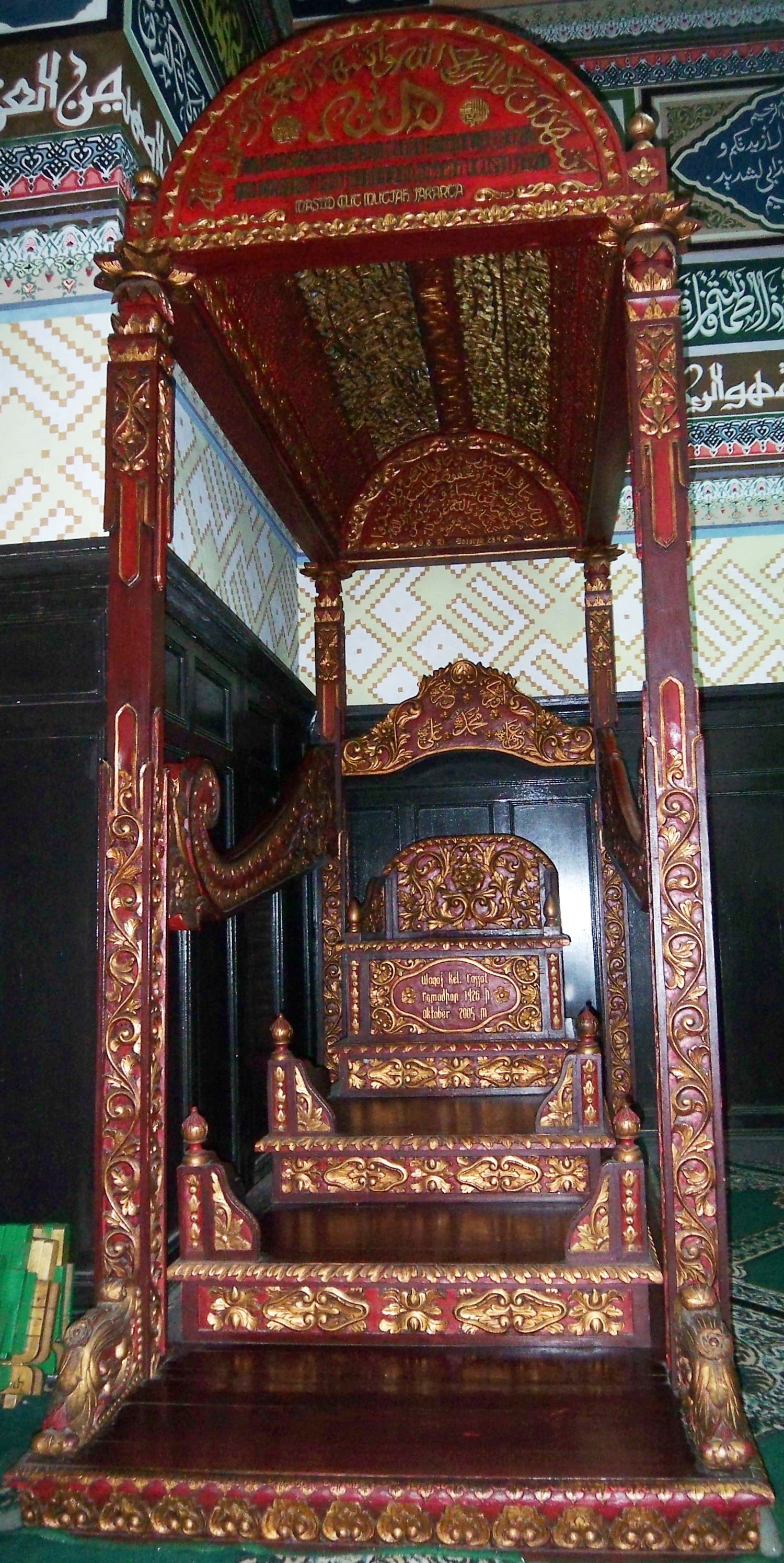 This is another view of the old and unique mimbar of the Cut Mutiah Mosque.